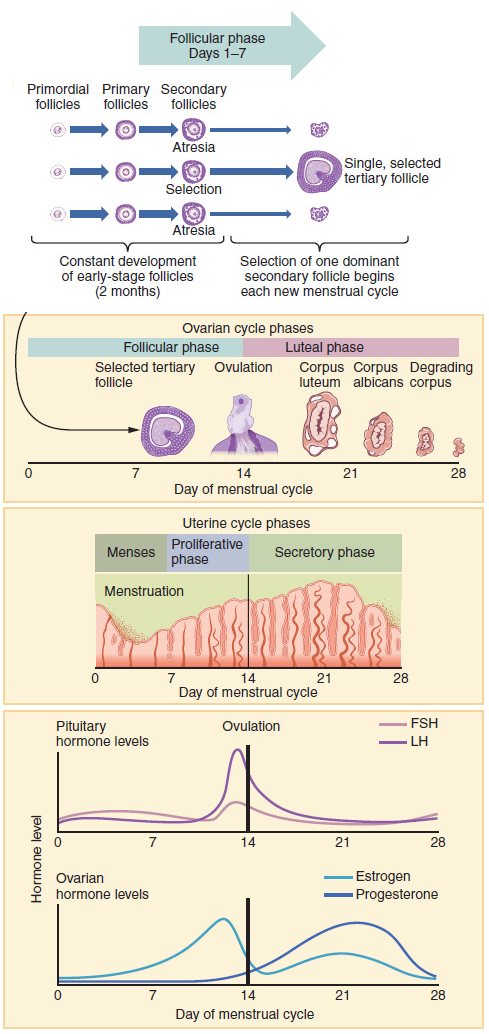 Illustration from Anatomy & Physiology, Connexions Web site. Jun 19, 2013.